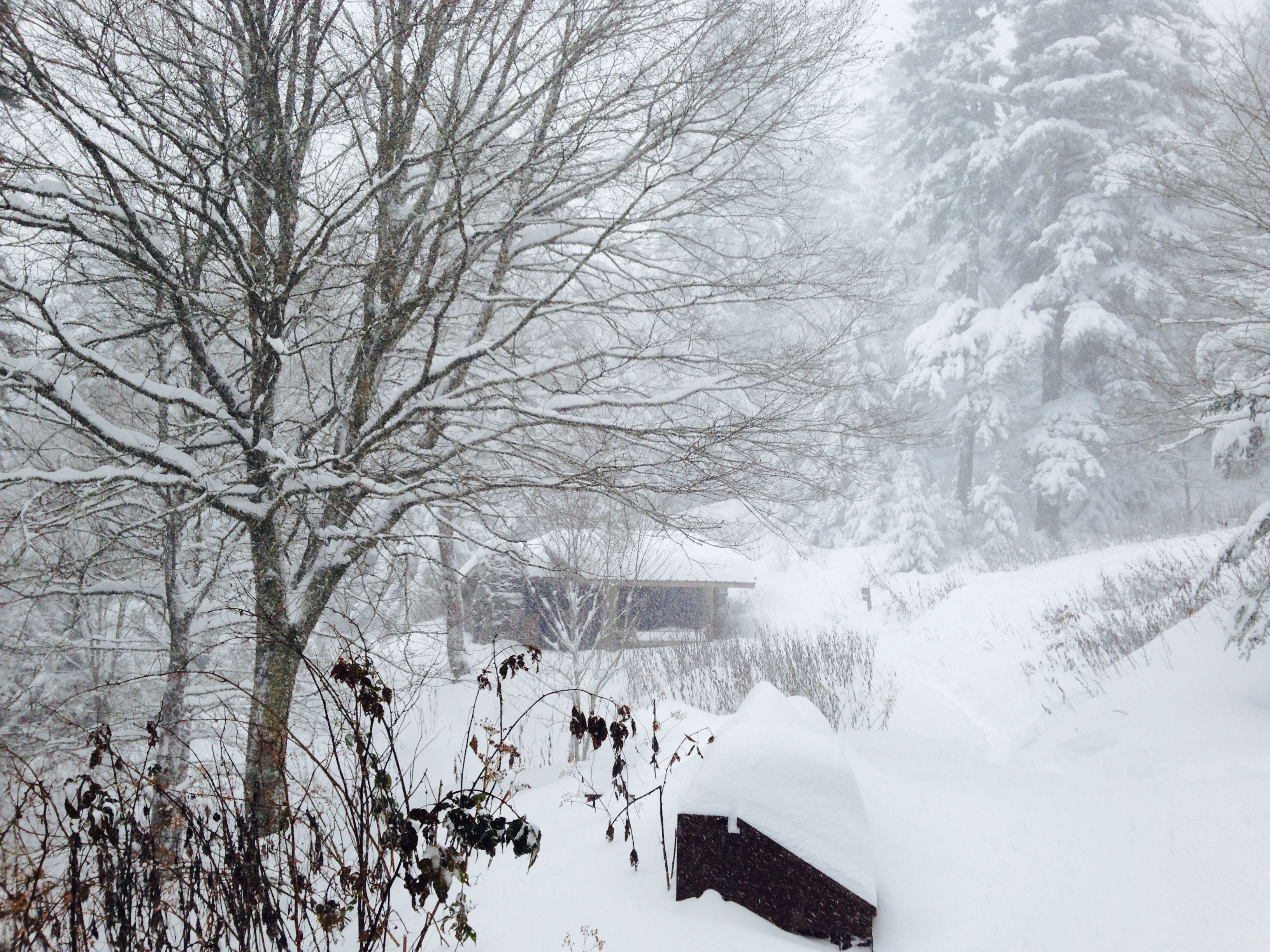 Tricorner Knob Shelter following a snowstorm on November 1, 2014.